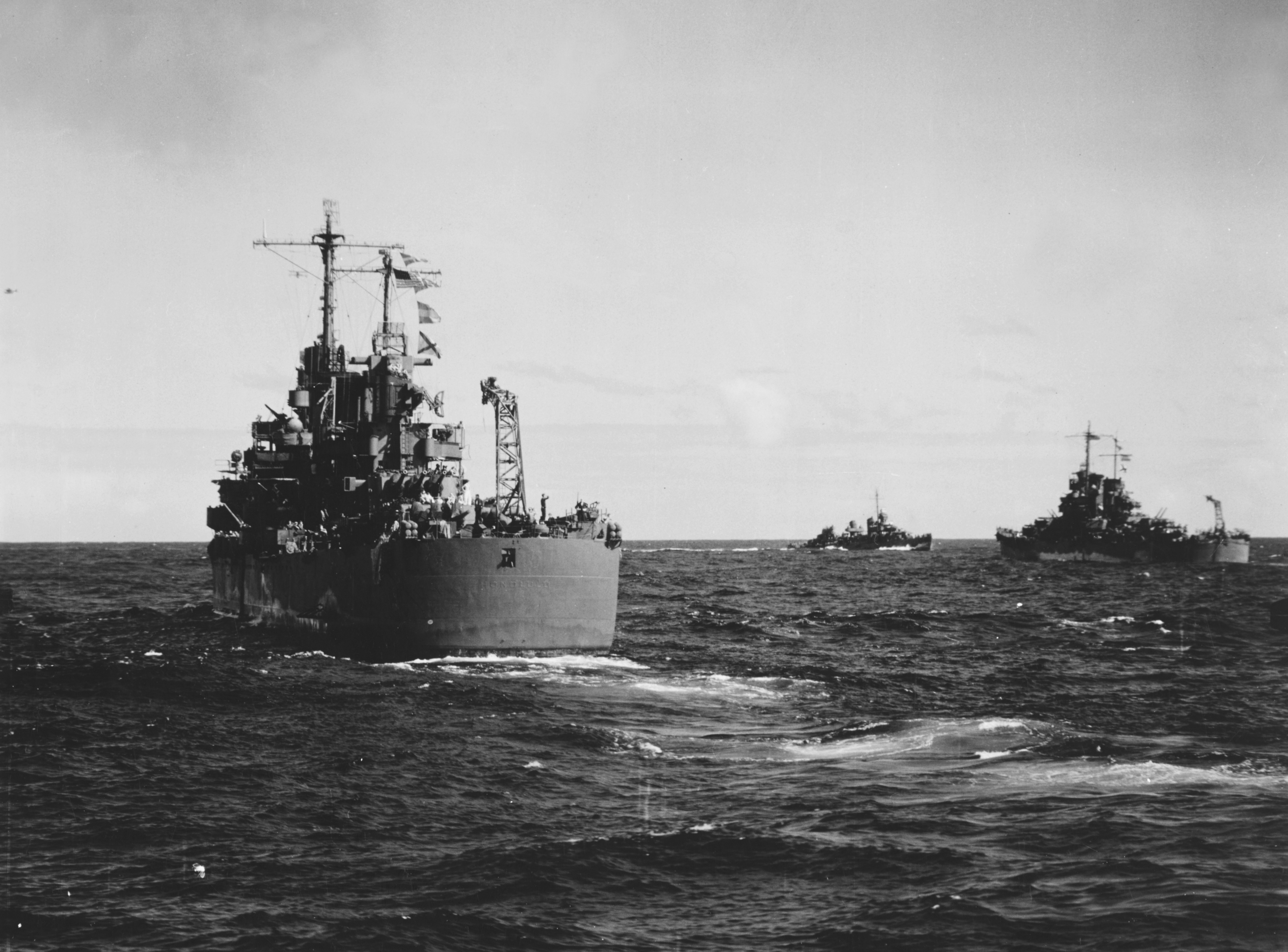 The U.S. Navy light cruiser USS Honolulu (CL-48), at left, returning from the Battle of Kula Gulf, at 0810 hrs on 6 July 1943. Also visible are USS St. Louis (CL-49), at right, and a Fletcher-class destroyer. Note the Curtiss SOC Seagull visible behind Honolulu's mast and another aircraft to the left.